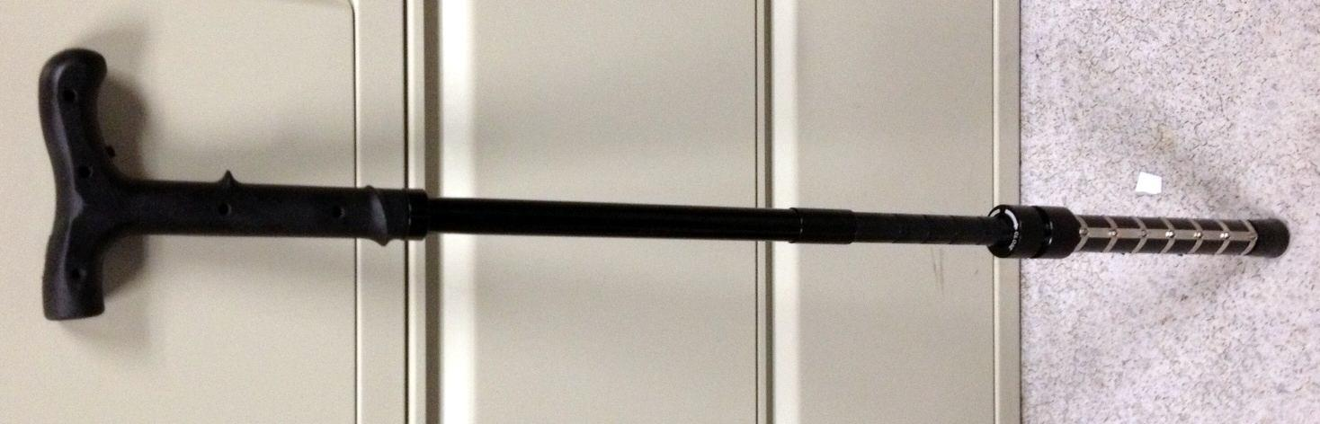 Stun gun affixed to the end of a walking cane discovered at Cleveland (CLE) by the TSA officers